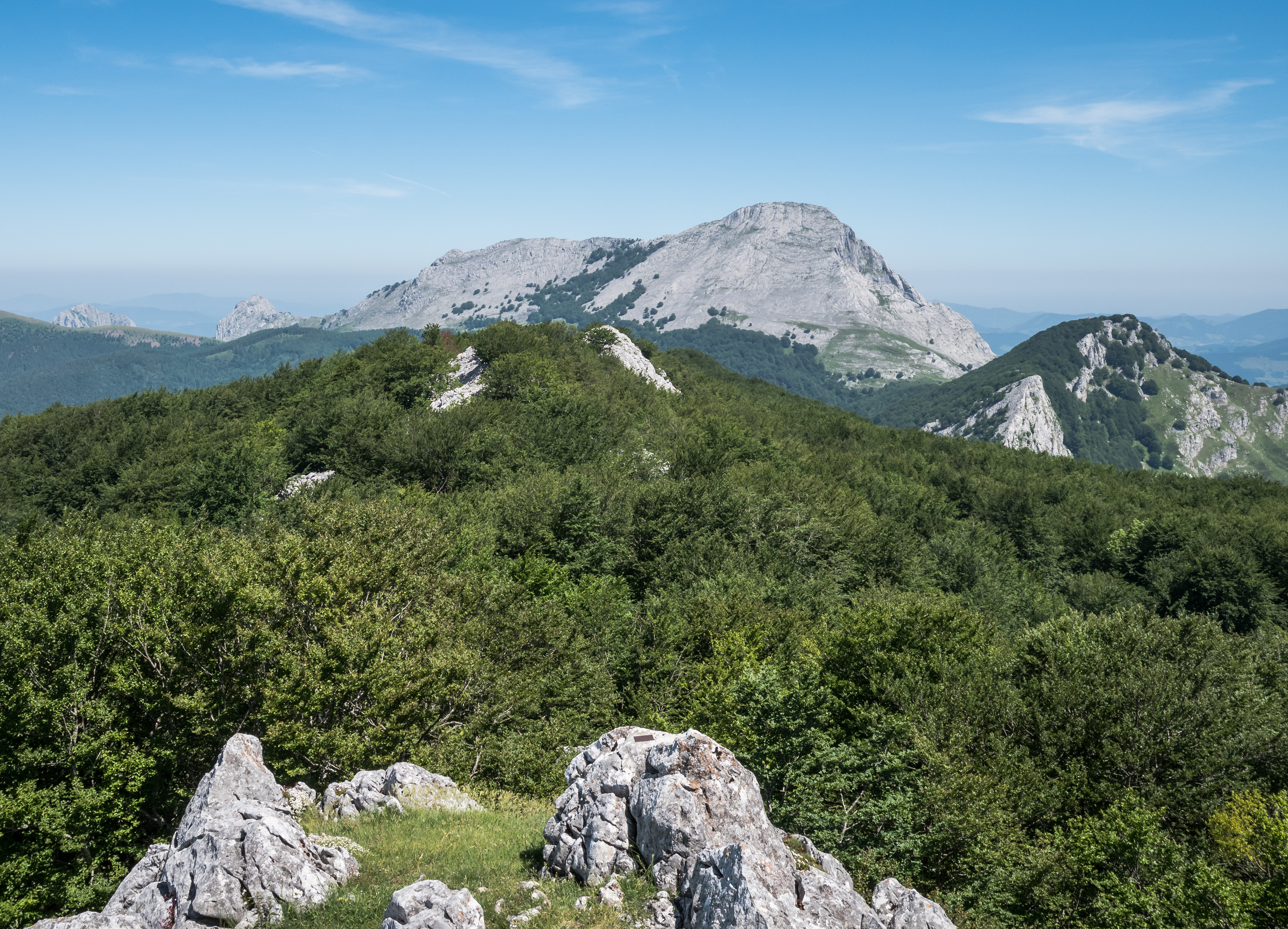 Mountain Amboto, viewed from the summit of Orisol. Álava, Basque Country, Spain